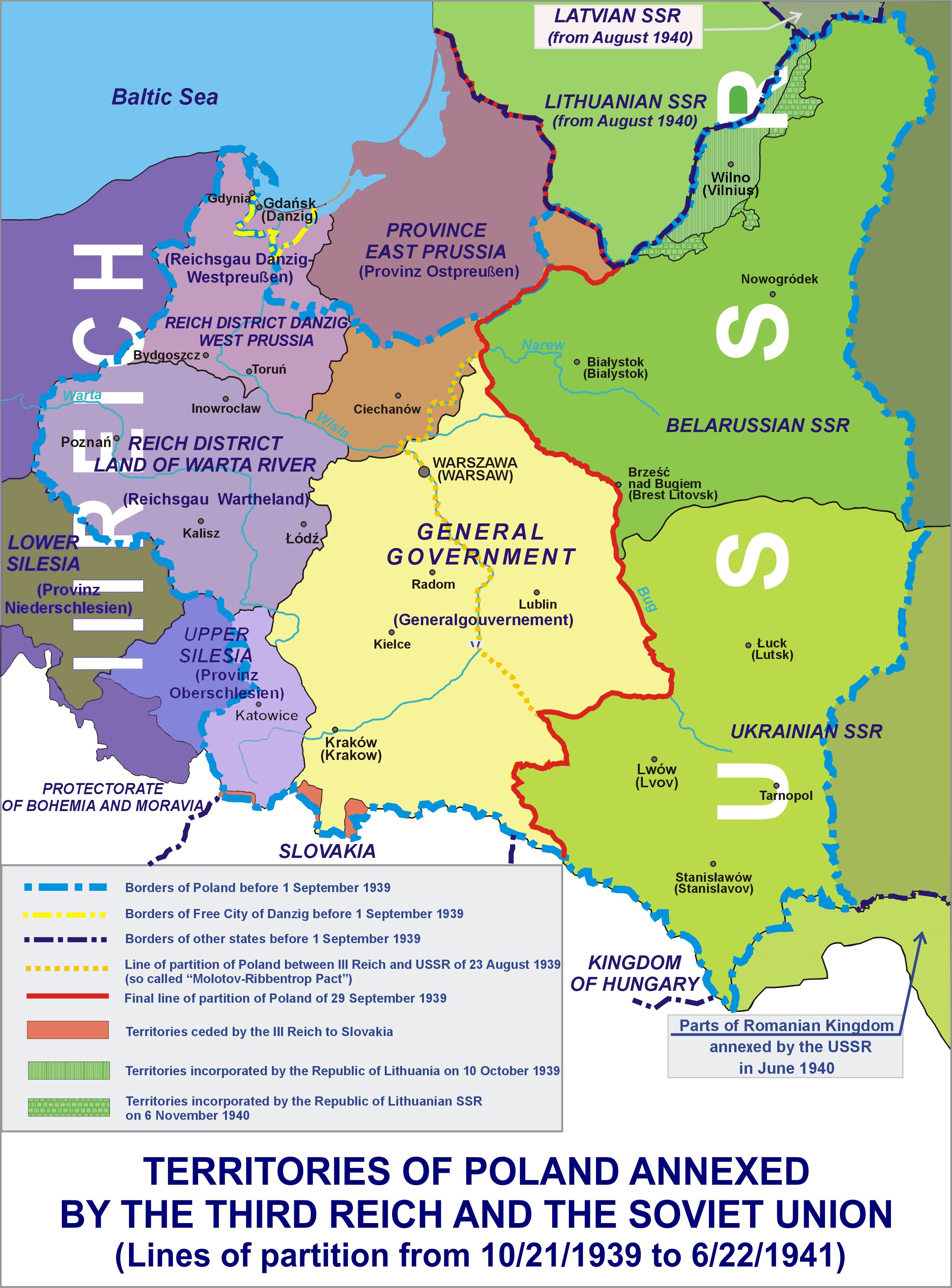 Poland occupied by Nazi Germany (Third Reich) and the USSR (21/10/1939-22/06/1941)